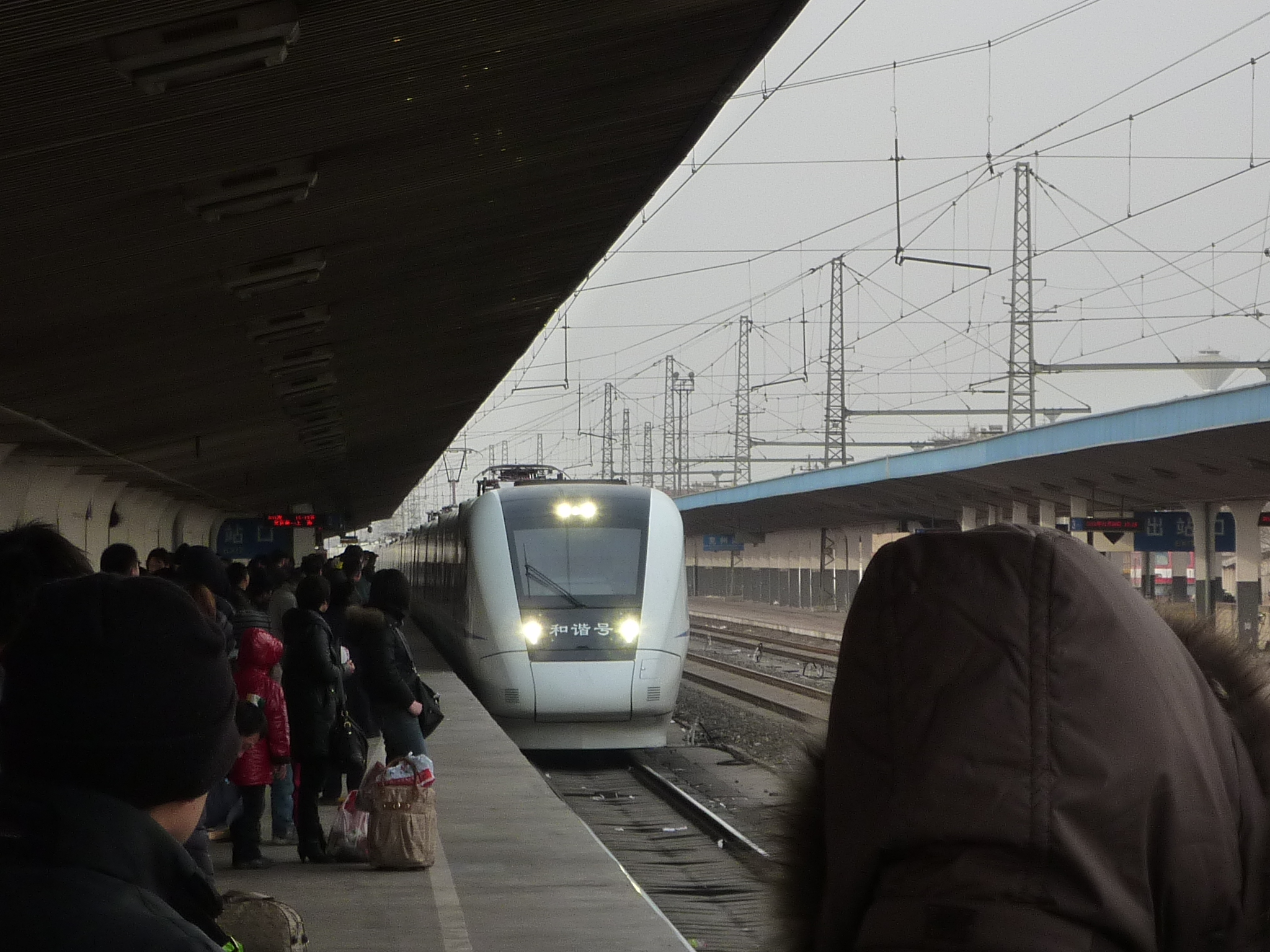 Yanzhou train station:Arrival of a D-series train on a Beijing-Shanghai route